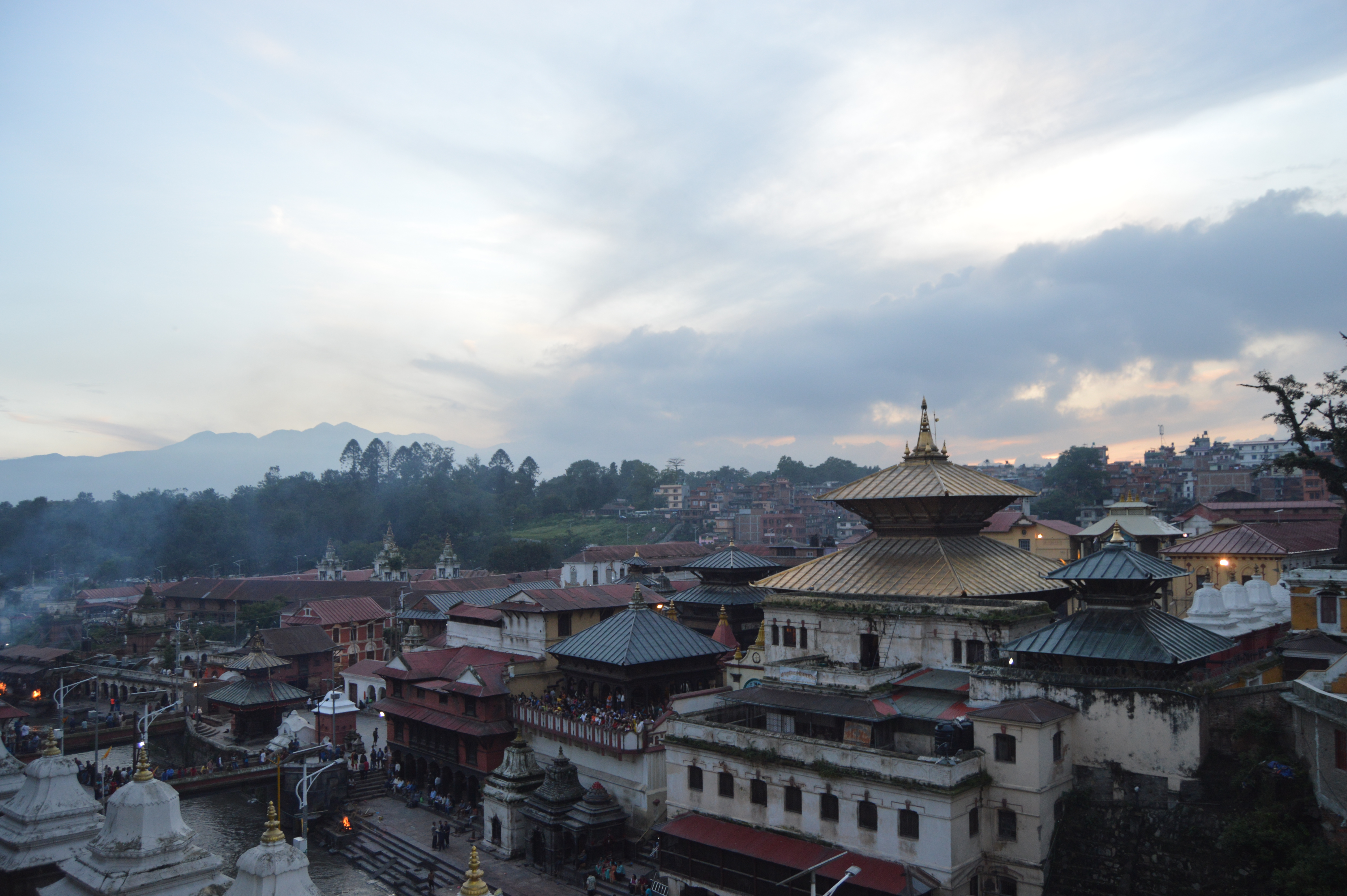 Pashupatinath Temple